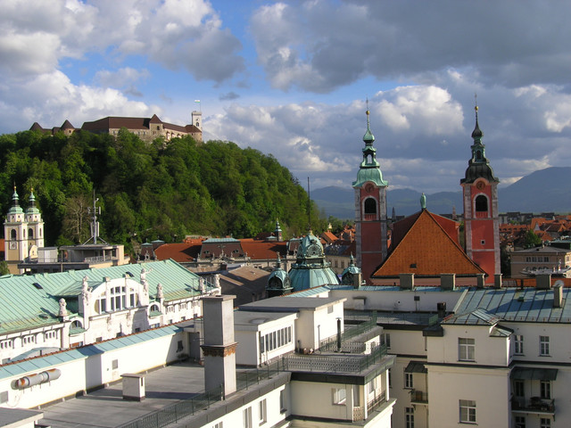 Ljubljana Skyline including Ljubljana Castle.